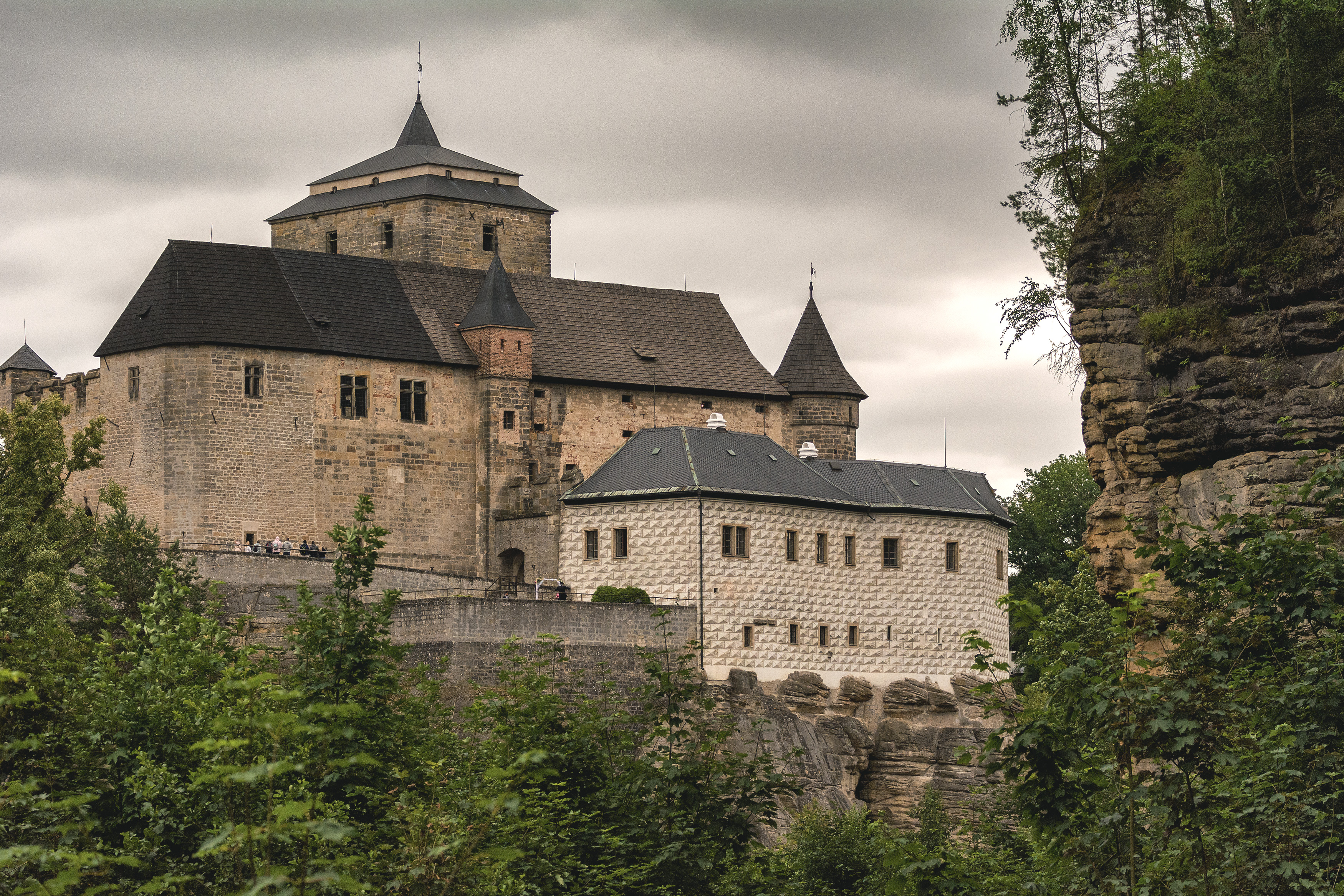 This is a photo by Martin Vorel that I reuploaded from his website He explicitly marks his photos as CC0.